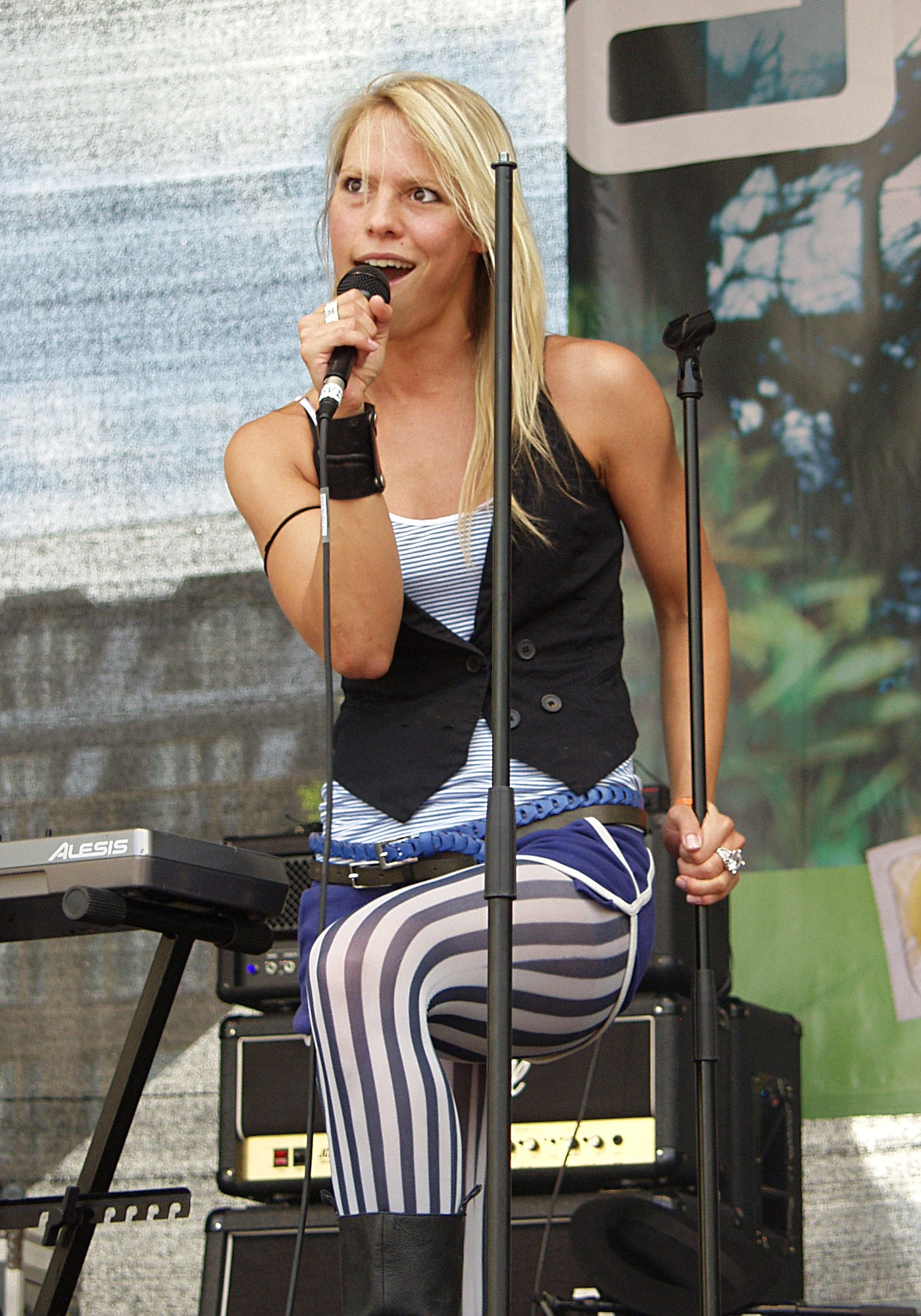 Lili (rock band) from Cologne on a stage during the ColognePride 2007.